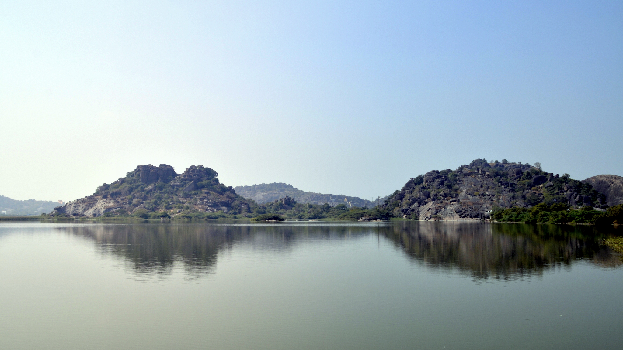 The Bhadrakali Lake is a scenic lake practically in the heart of Warangal. The lake's pristine waters form a major drinking water resource for the the town. The famous Bhadrakali Temple is located on the banks of this lake as is the relatively new attraction - Dancing Fountains.